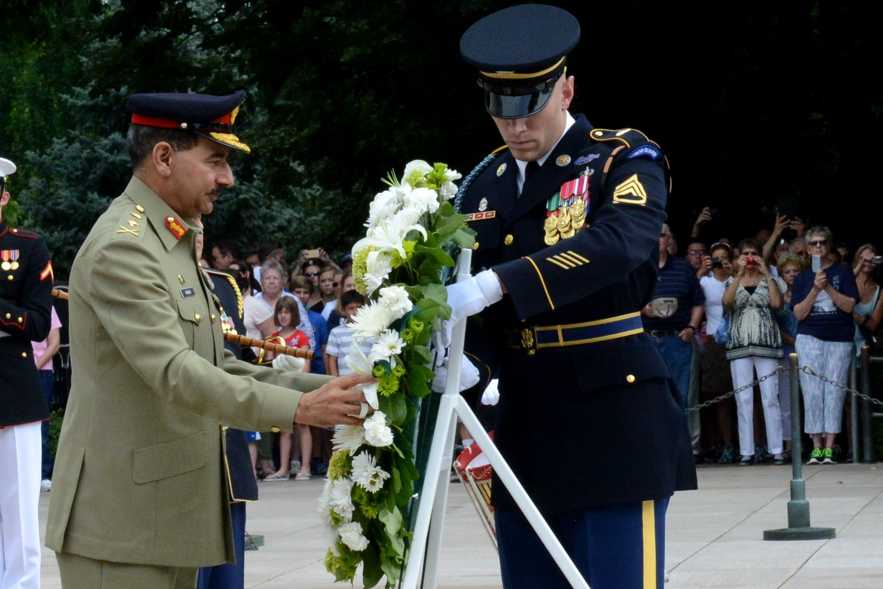 Gen. Rashad Mahmood, 16th Chairman of the Joint Chiefs of Staff Committee of Pakistan, lays a wreath during an Armed Forces Full Honors Wreath Laying ceremony at the Tomb of the Unknown Soldier at Arlington National Cemetery, Va., June 19, 2014.